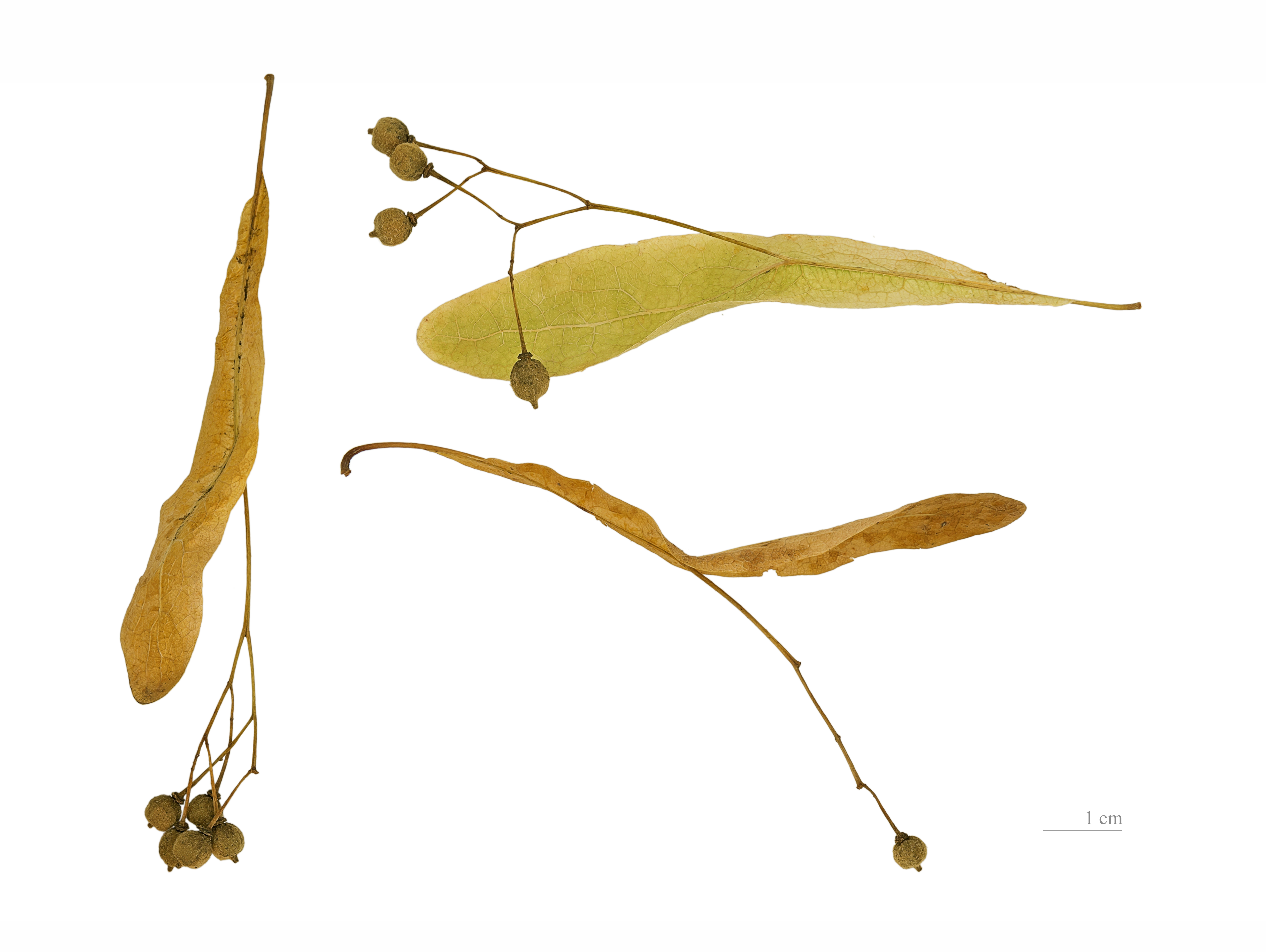 Small-leaved Lime, mature fruits